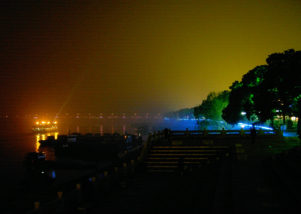 Xiang River and Changsha's riverbank at night (2005)